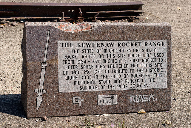 Beige stone commemorative monument with polished surface and rough, jagged edges. On the face of the monument, an inscription dominates the surface and reads, "The Keweenaw Rocket Range. The State of Michigan established a rocket range on this site which was used from 1964-1971. Michigan's first rocket to enter space was launched from this site on Jan. 29, 1971. In tribute to the historic work done in the field of rocketry, this memorial stone was placed in the summer of the year 2000 by:" and below are engraved logos of the General Technics and PFRC student groups, and the National Aeronautics and Space Administration. To the left of the inscription is carved a long, thin rocket